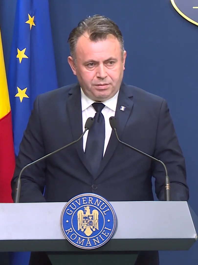 Romanian Minister of Health, , Nelu Tătaru, is seen during a press conference in April 2020 during the 2020 Coronavirus pandemic